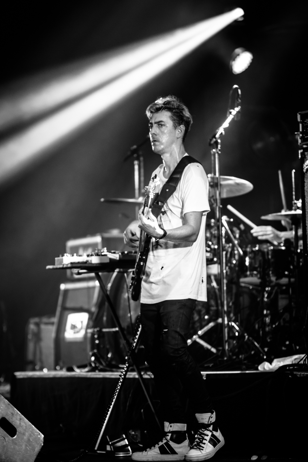 US-american bassist Stu Brooks at the Moers Festival 2017